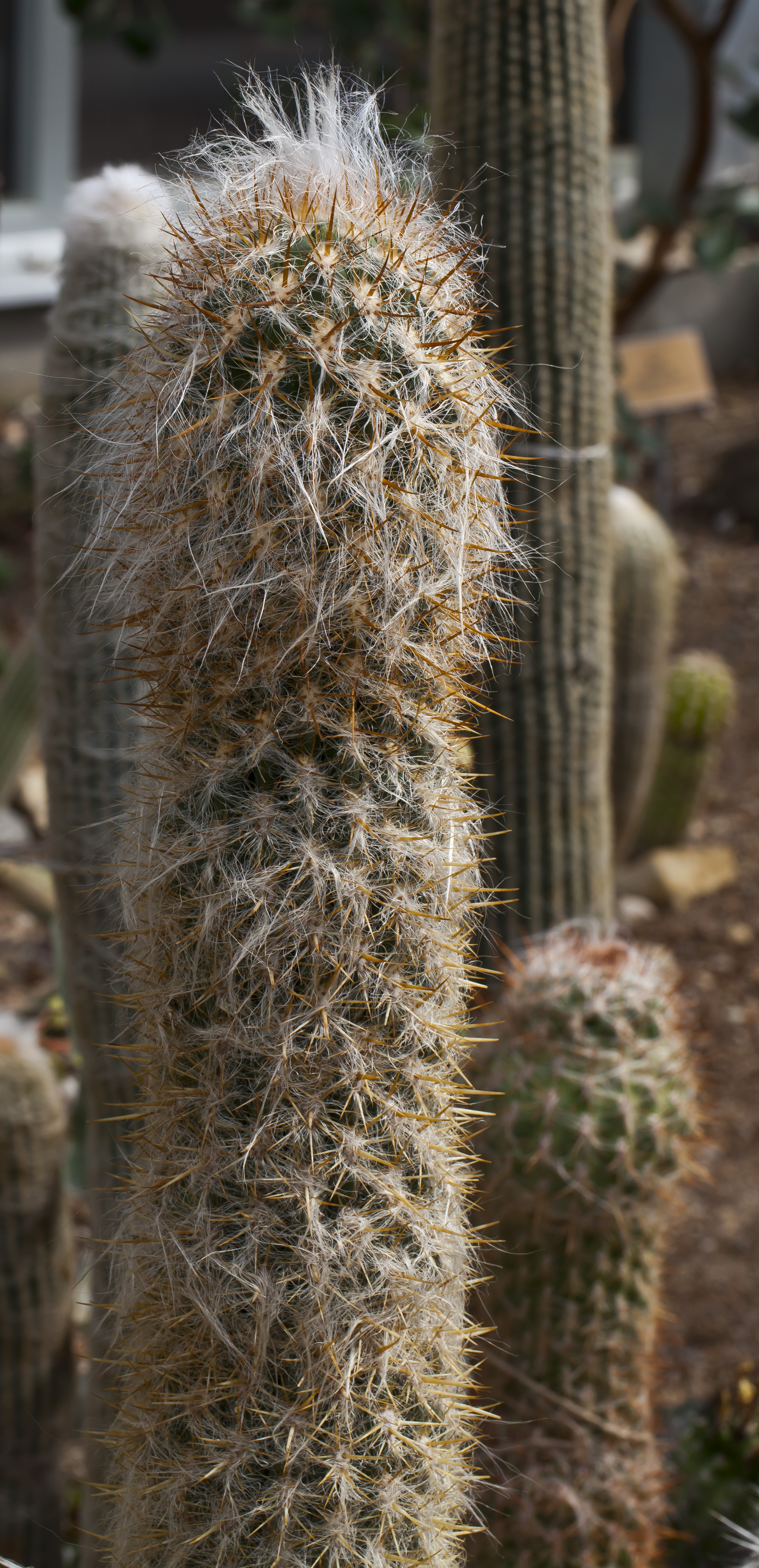 Oreocereus pseudofossulatus, Tallinn Botanic Garden, Estonia